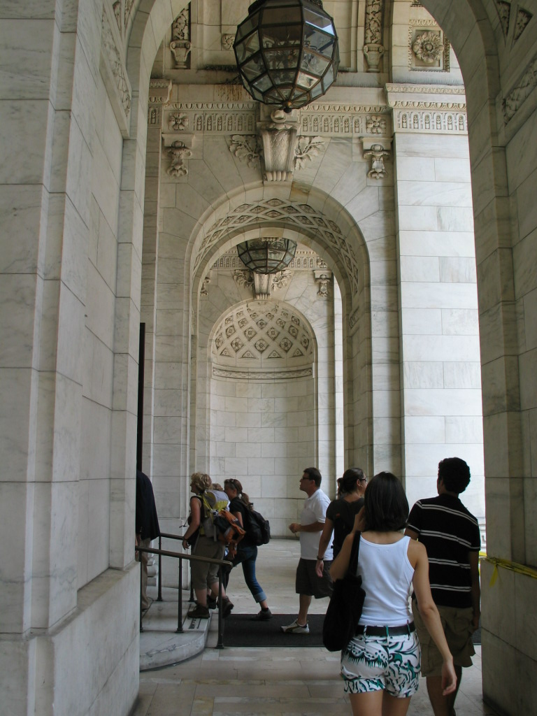 One of the entrance elements of NYPL